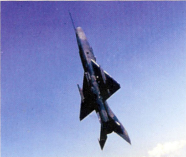 4477th Test and Evaluation Squadron - MiG-21 in slow speed loop at a much lower airspeed than any American fighter.